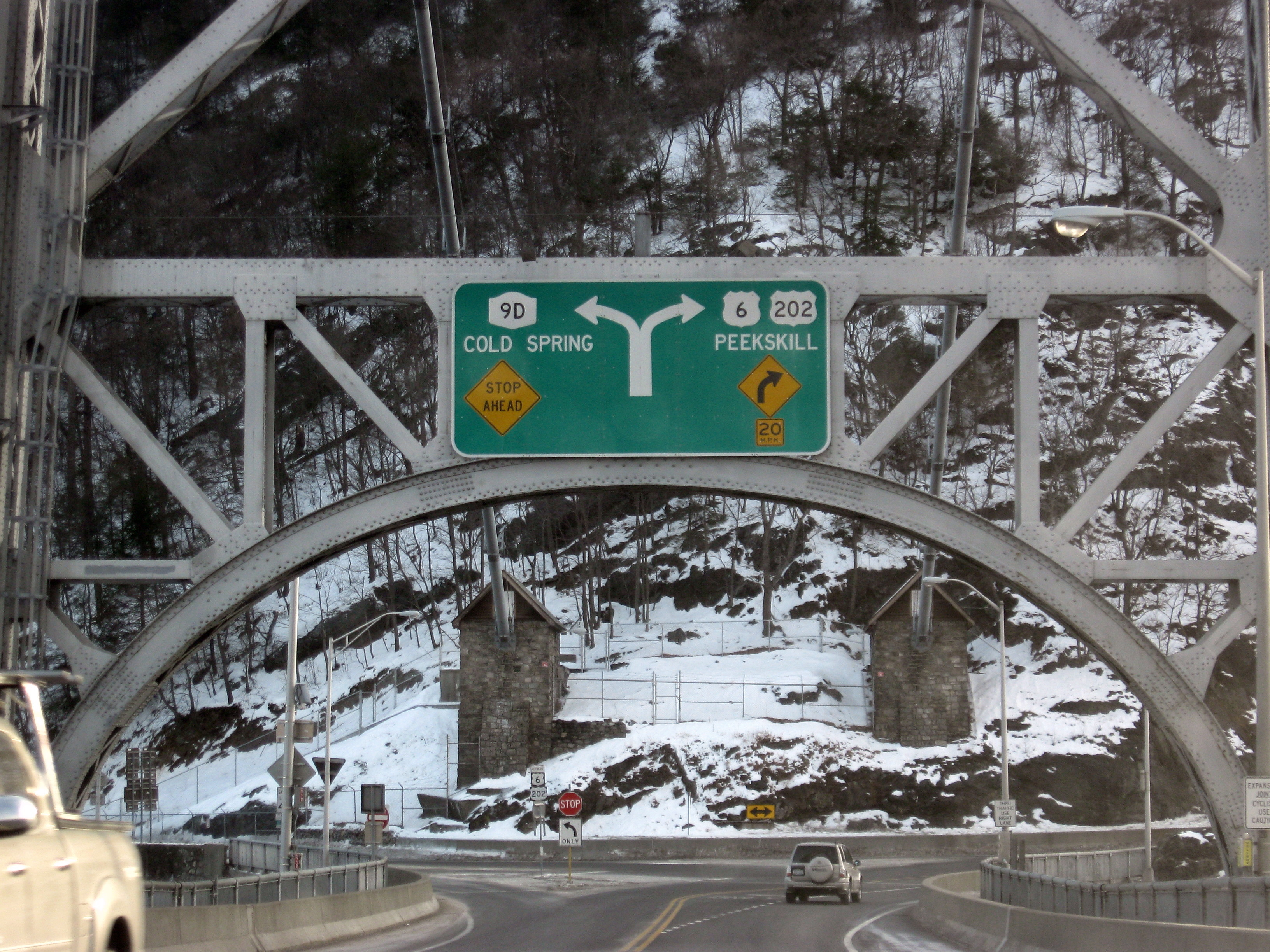 Diagrammatic sign at the east end of the Bear Mountain Bridge. New York State Route 9D starts north from here on the left, while US 6-202 continues on the right.